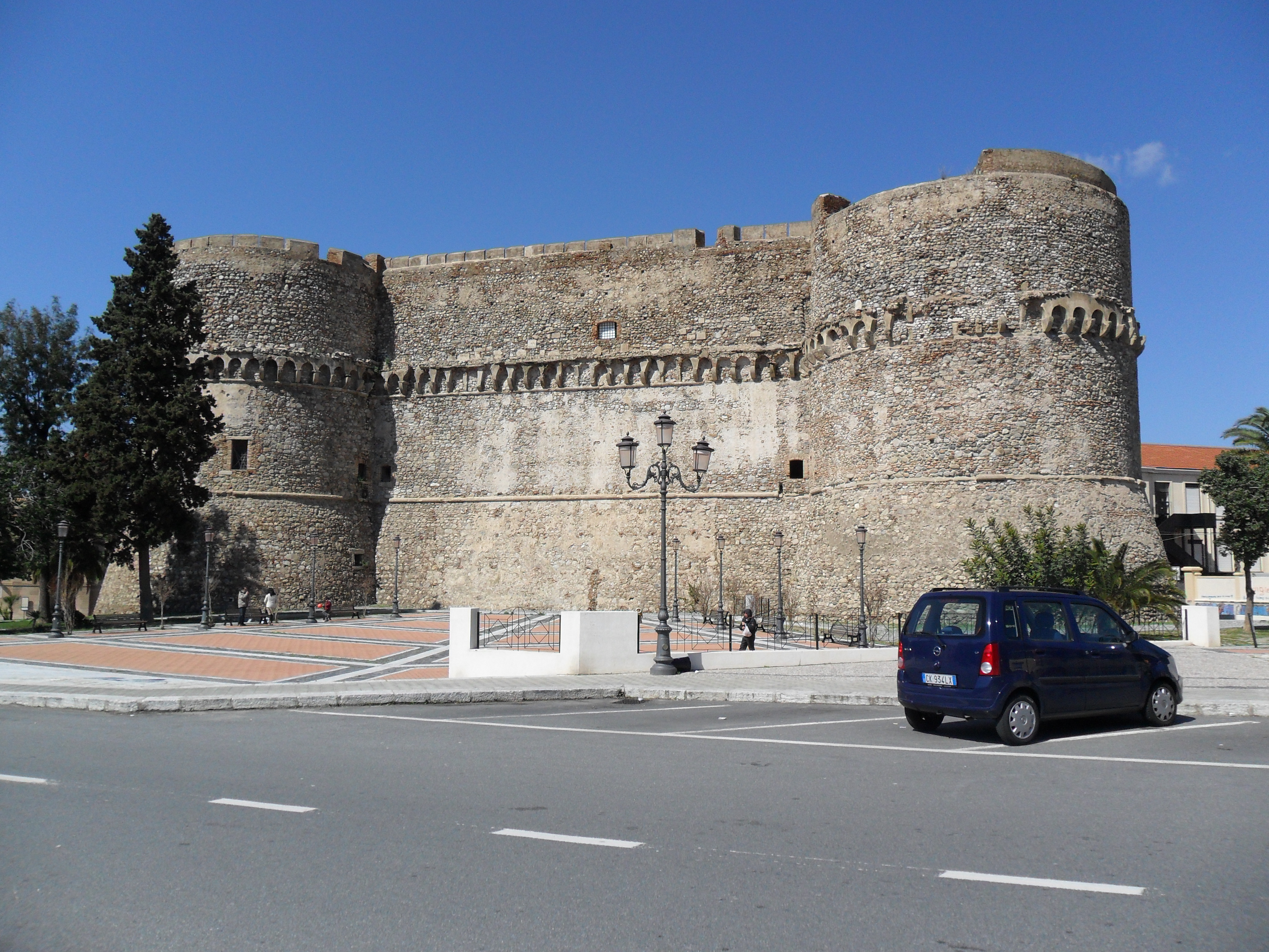 Aragonese castle of Reggio Calabria city